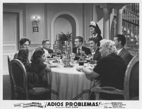 Promotional shot of 1955 Argentine film Adiós problemas.